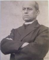 József Szakovics slovenian writer and priest in Hungary